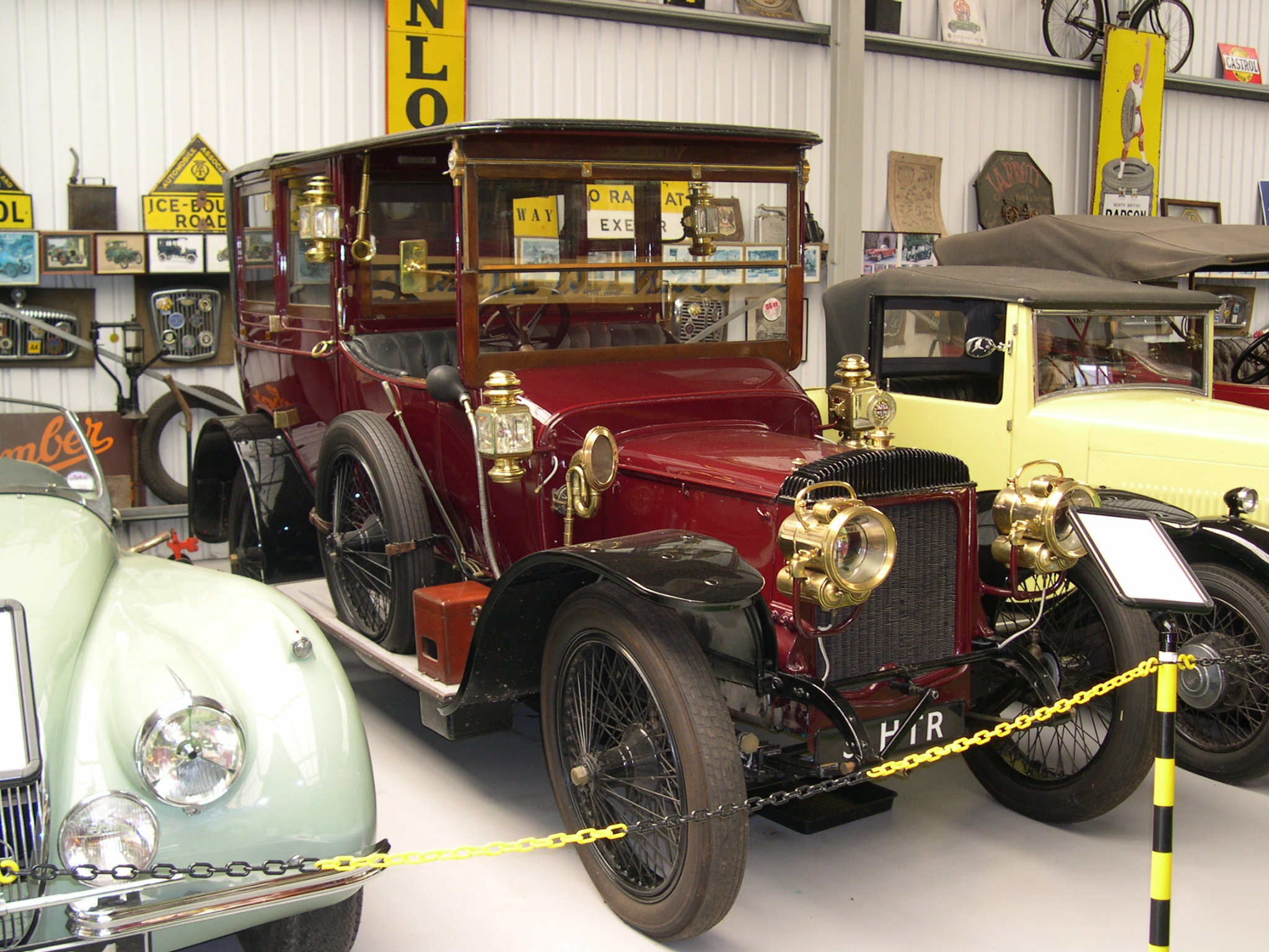 1911 Daimler 20hp landaulette body by Maythorn of Biggleswade to the order of Prince Louis Alexander of Hesse, grandson of Queen Victoria and First Sea Lord, 1912-1914 who following the hostilities of the 1914-1918 war was to change the family name to Mountbatten. He was father to Earl Mountbatten of Burma. This car is in extremely original condition, interior rear upholstered in Bedford Cord with silk trimming. Chauffeur's compartment in black leather